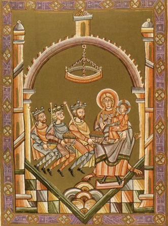 Codex Vyssegradensis